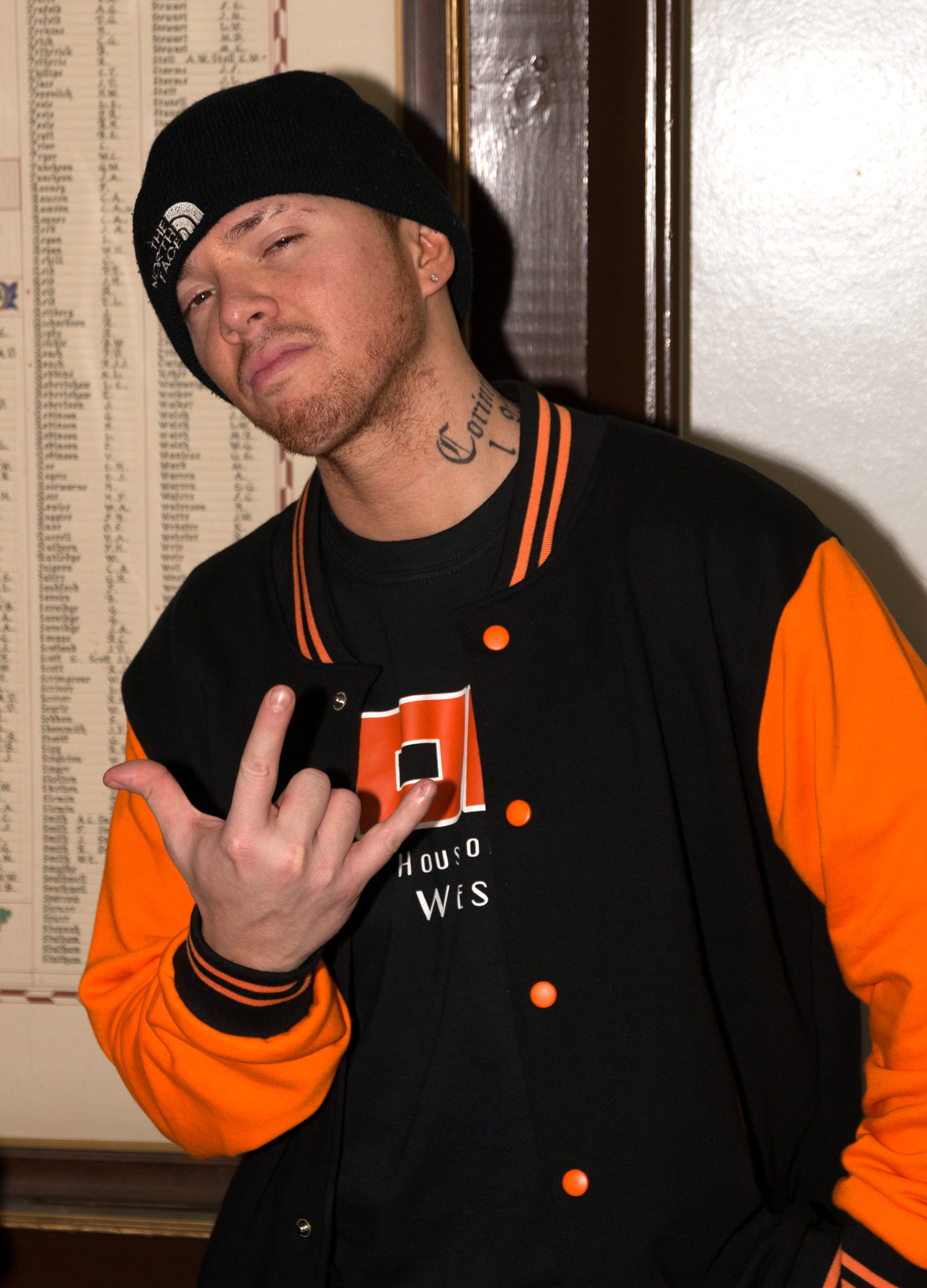 Independent wrestler Amazing Red at the "Squared Circle LIVE! vs House of Glory: PREMIER SHOWCASE" in Mississauga, ON